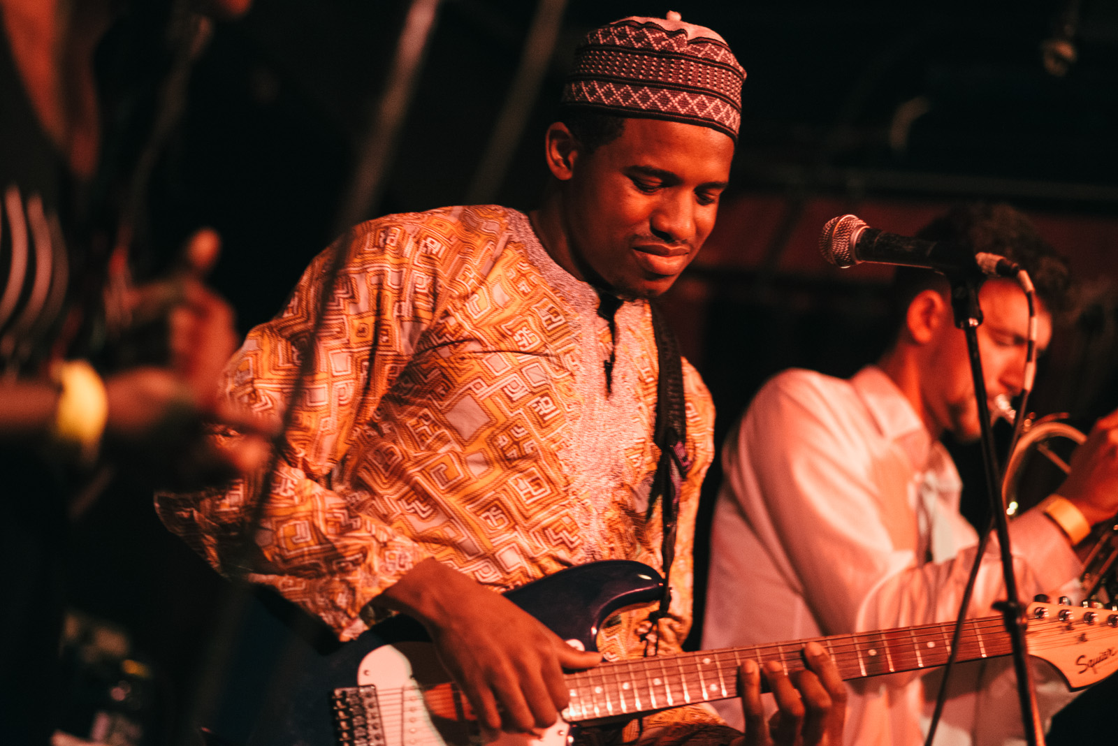 An angle shot of Clef nite performing at the live at The Middle east Upstairs in Cambridge, Massachusetts.